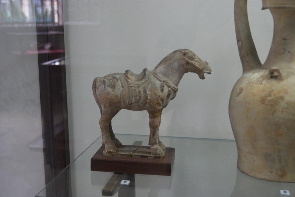 Clay figurine from the 10th century. HCMC Museum of National History.